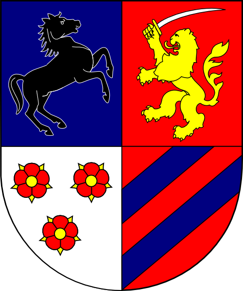 Coat of arms (shield only) of Ignác Koller, bishop of Veszprém, Hungary (1762 - 1773).